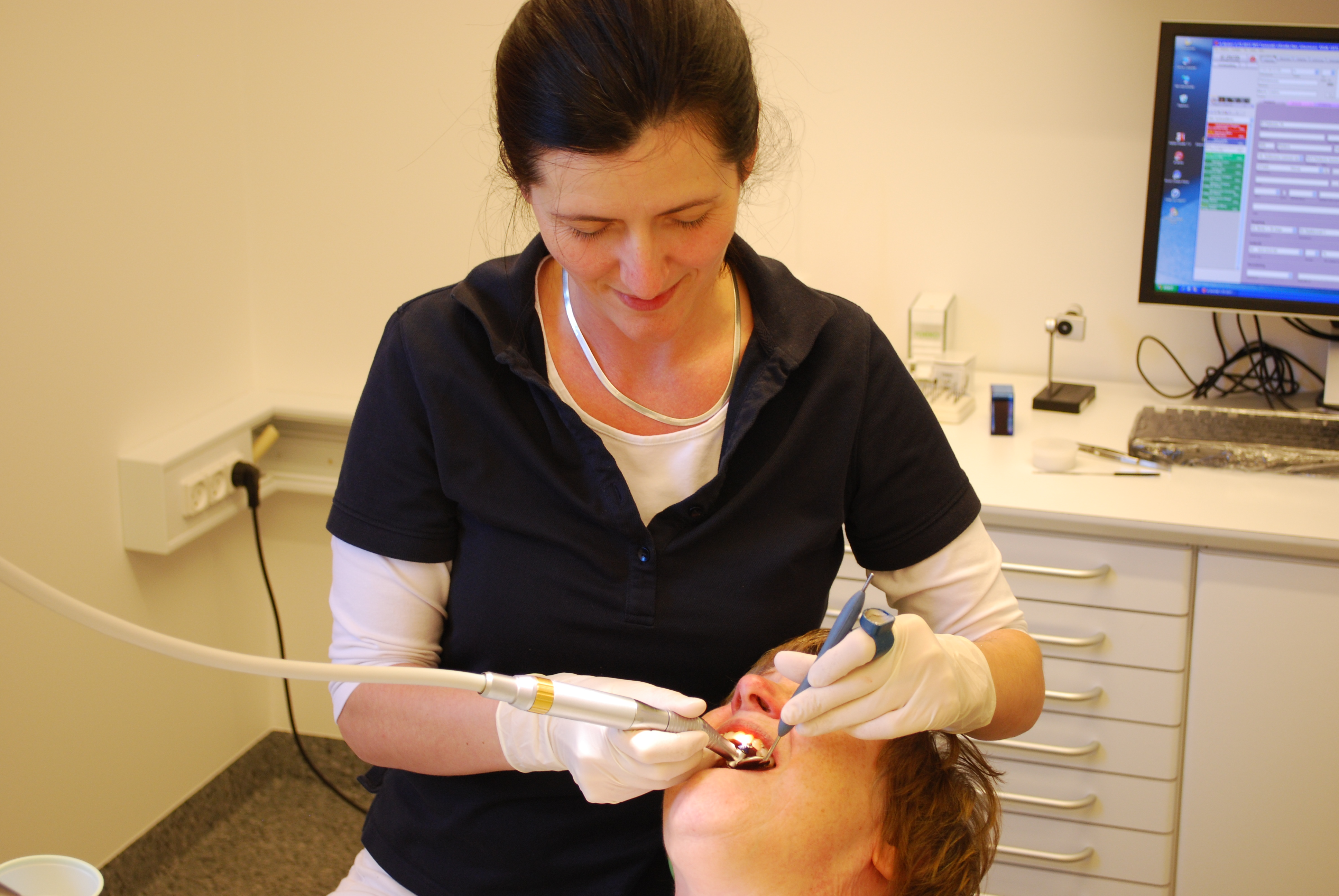 Dentist - Faroe Islands